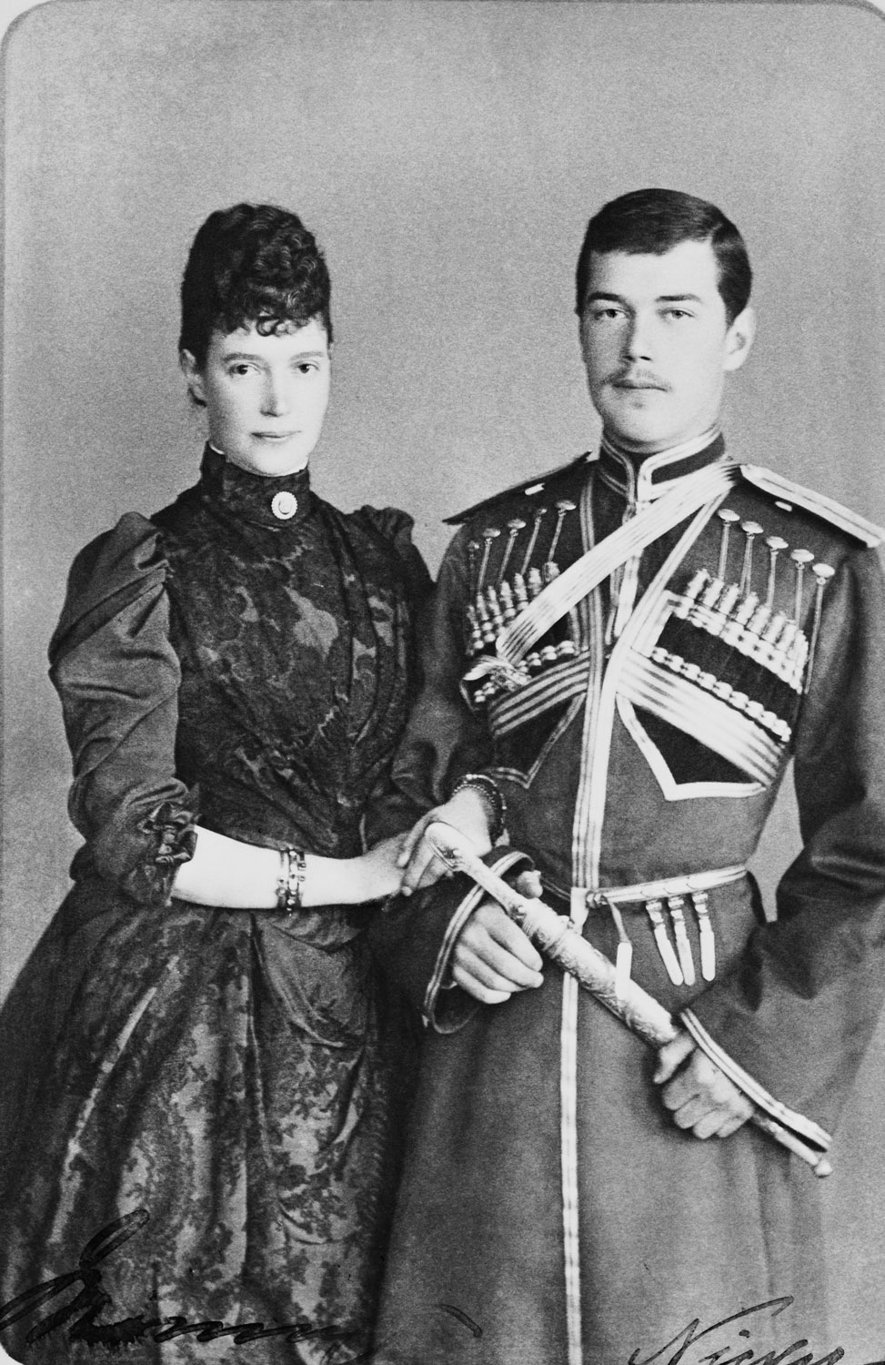 Maria Feodorovna (Dagmar of Denmark), Tsarina of Russia, with her son Nicholas Alexandrovich, future Tsar Nicholas II.